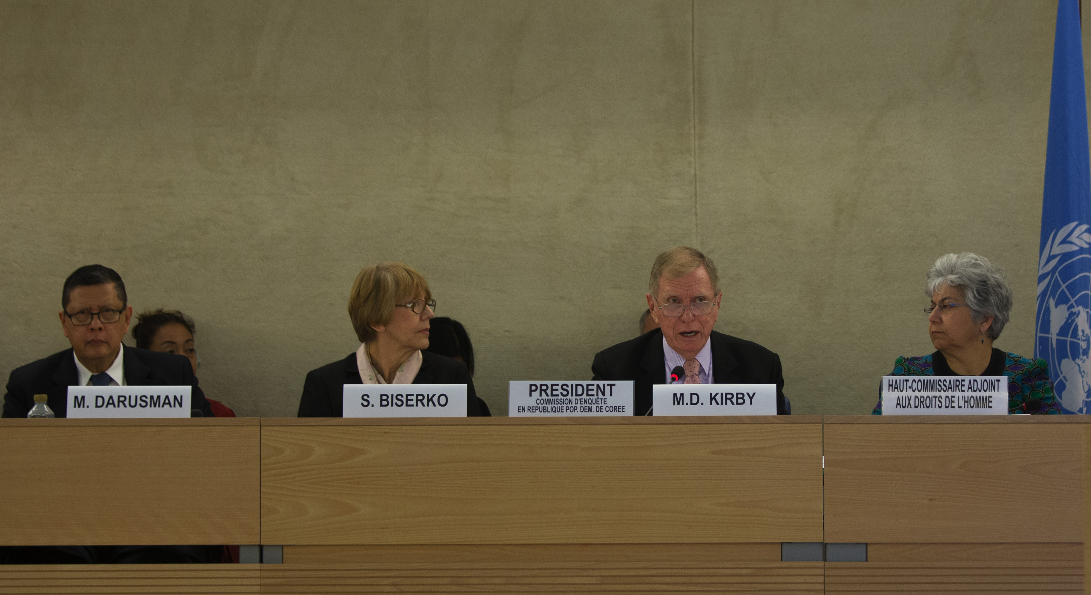 The United Nations Commission of Inquiry on North Korea formally presented its report to the Human Rights Council March 17, 2014. The image shows the three commissioners: Michael Donald Kirby (Chair; Australia), Marzuki Darusman, (the existing Special Rapporteur on the situation of human rights in the DPRK; Indonesia), and Sonja Biserko (Serbia).